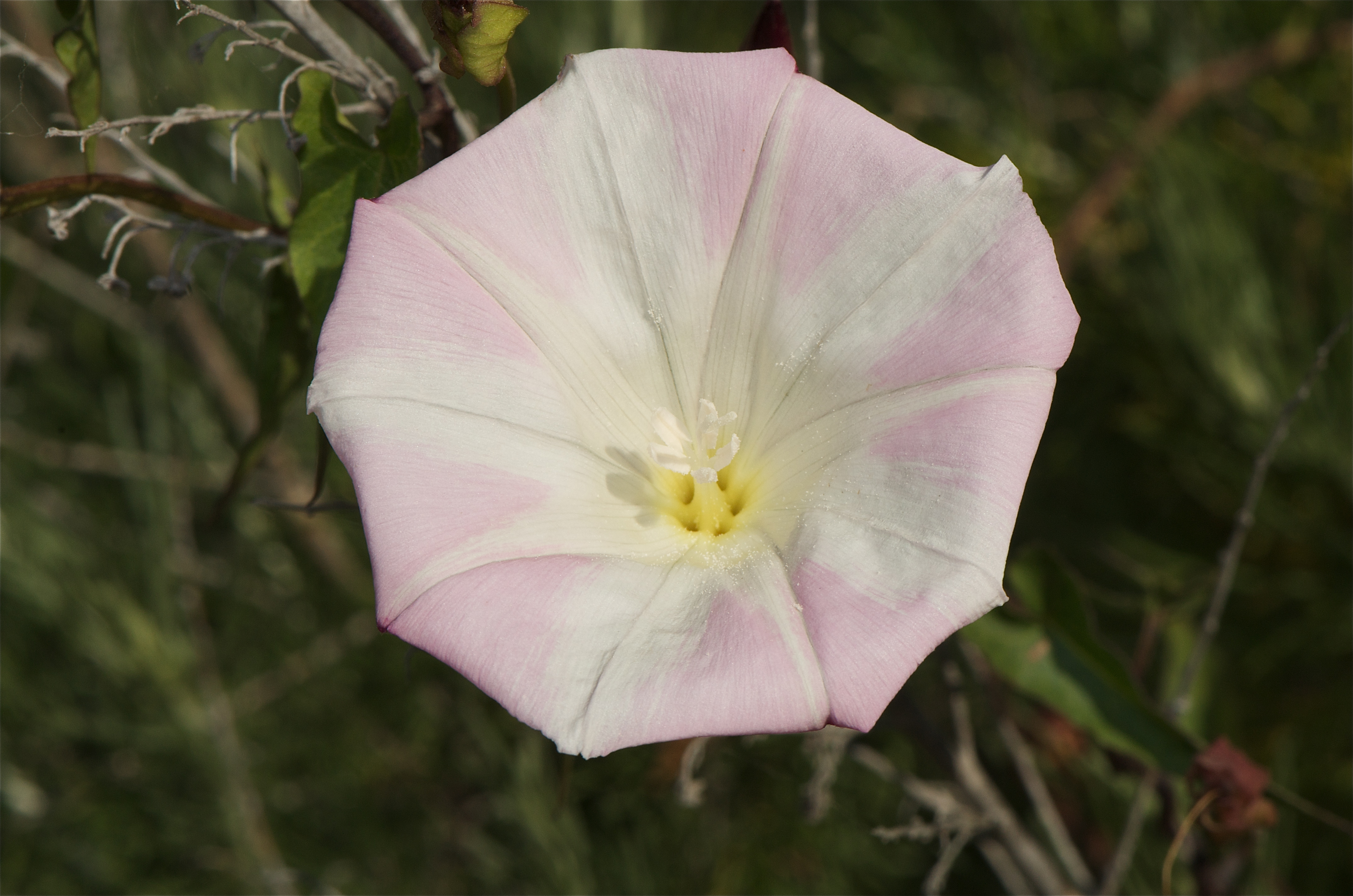 Calystegia macrostegia — California native Morning Glory. Same Flower, with different PP looks all taken the same time and place with the same camera settings. This flower is hard to get the reproductive parts in focus because of DOF, and is also hard to photograph because of its color. However, there are many choices to change its look.